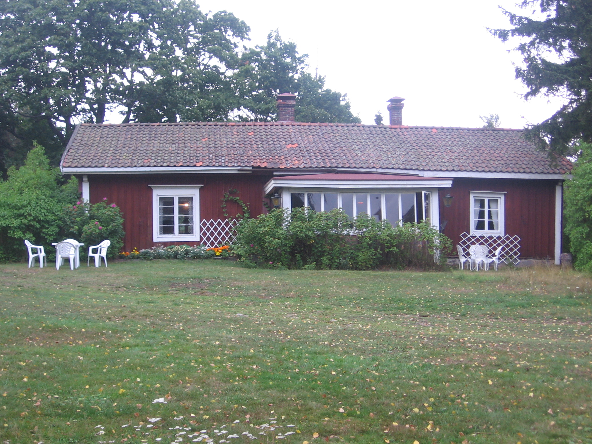 The old main building of Söderskog.